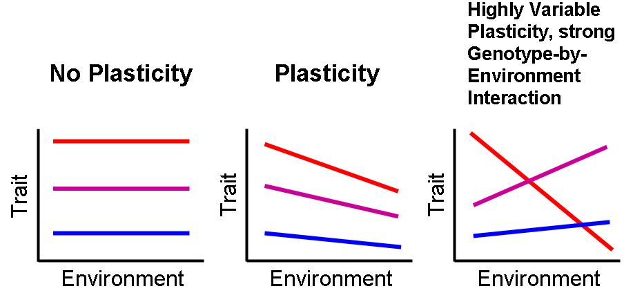 Color diagram illustrating the ability of one genotype to produce more than one phenotype when exposed to different environments.